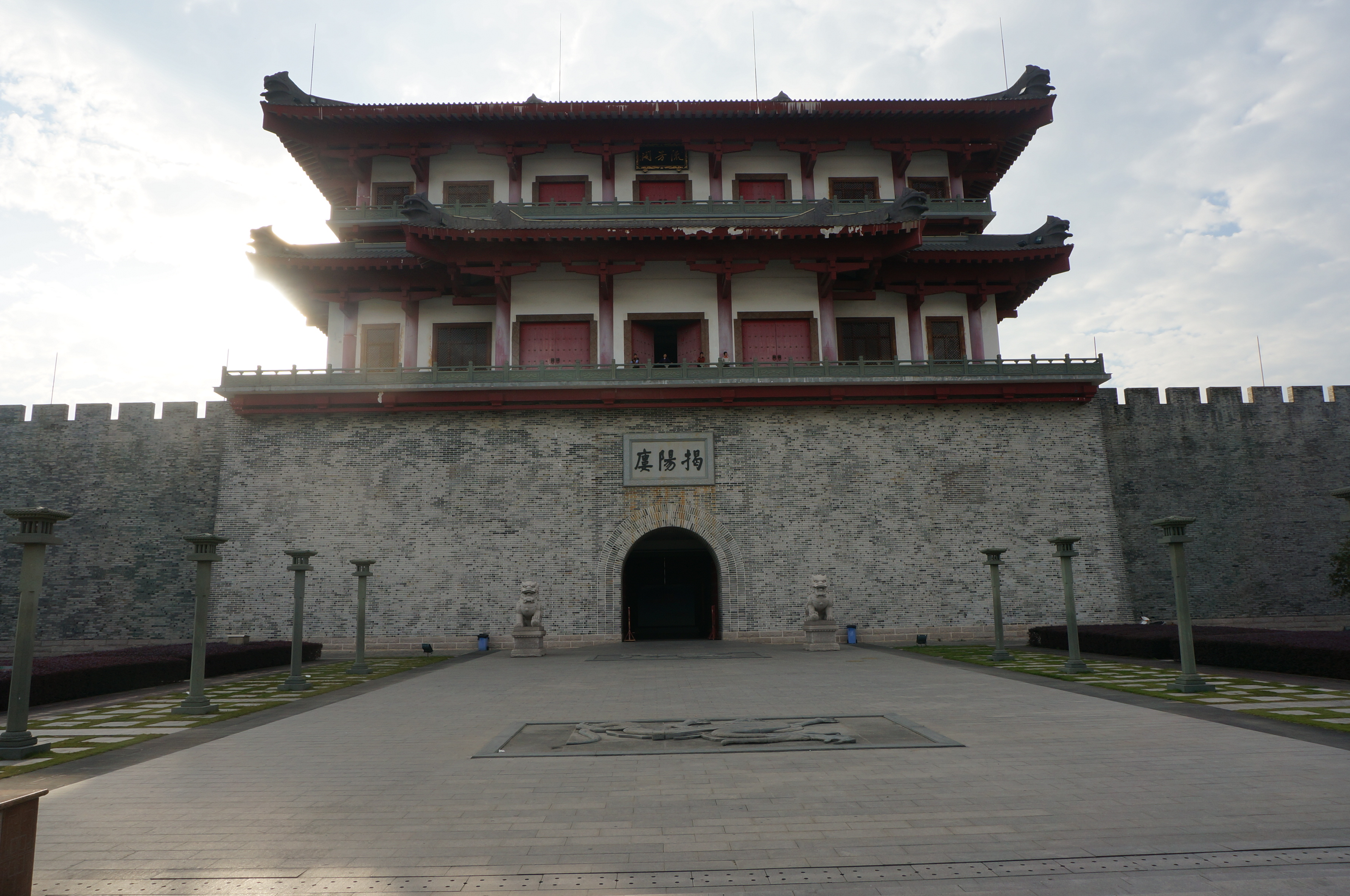 This picture shows the main building of Jieyang Tower, Jieyang gate tower